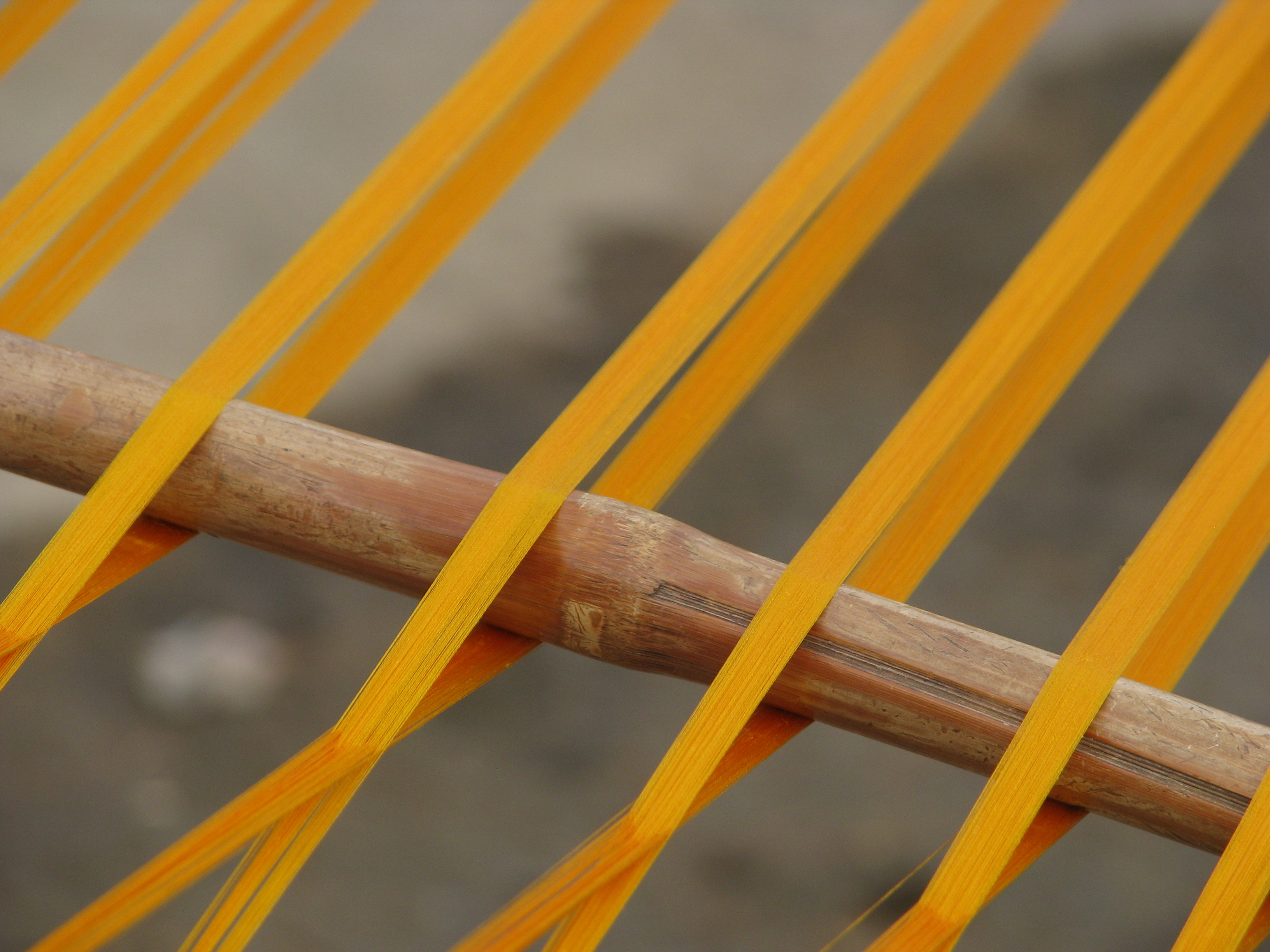 India - Sights & Culture - the tools for silk weaving 8